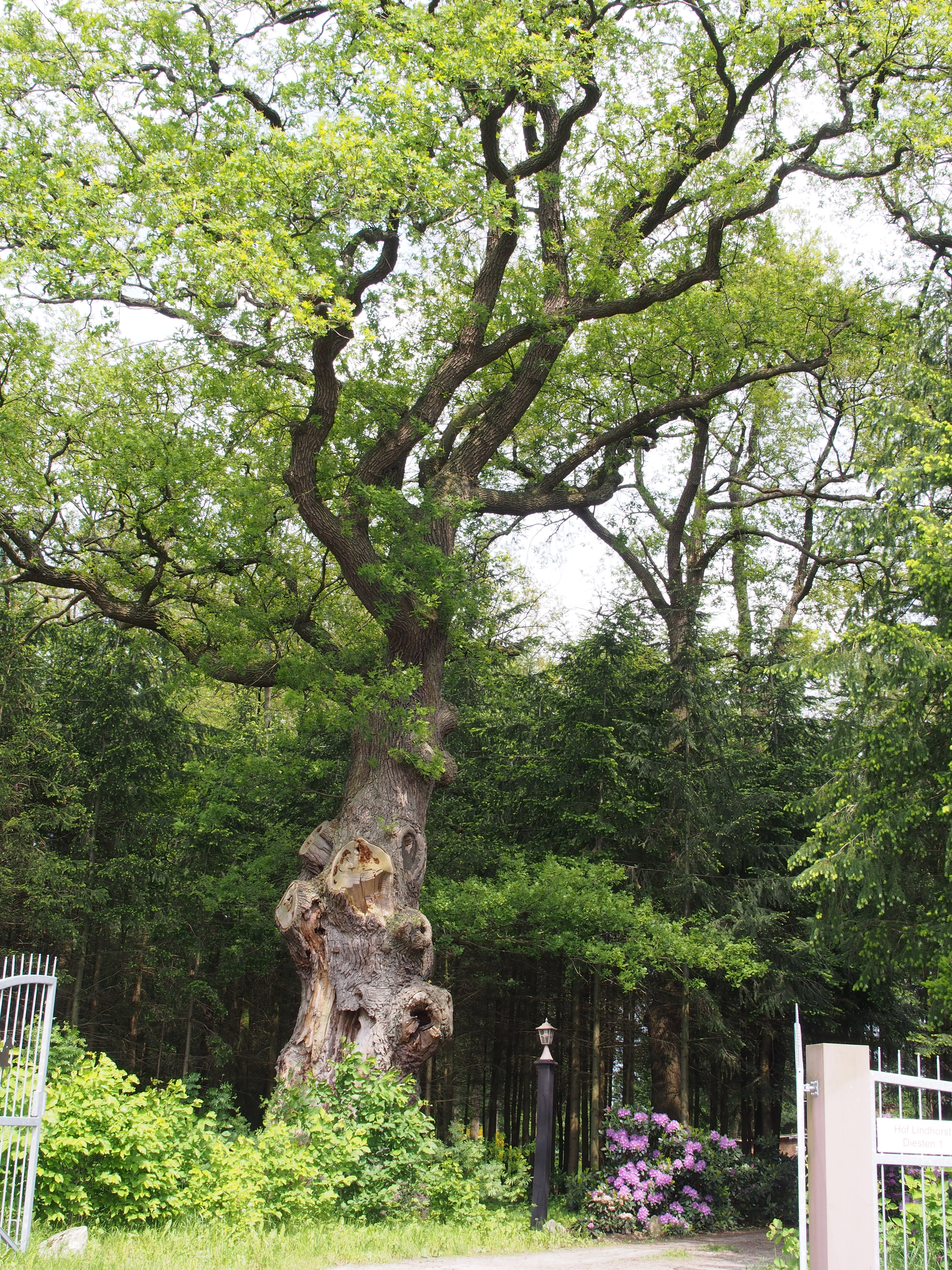 700 year old oak near Diesten-Lindhorst, Lower Saxony, Germany.